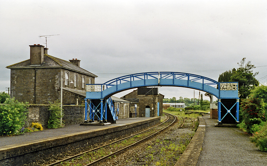 Carrick-on-Shannon Station, View NW, towards Sligo; ex-Midland Great Western, Dublin - Mullingar - Sligo line. Clearly it had been a double-line.